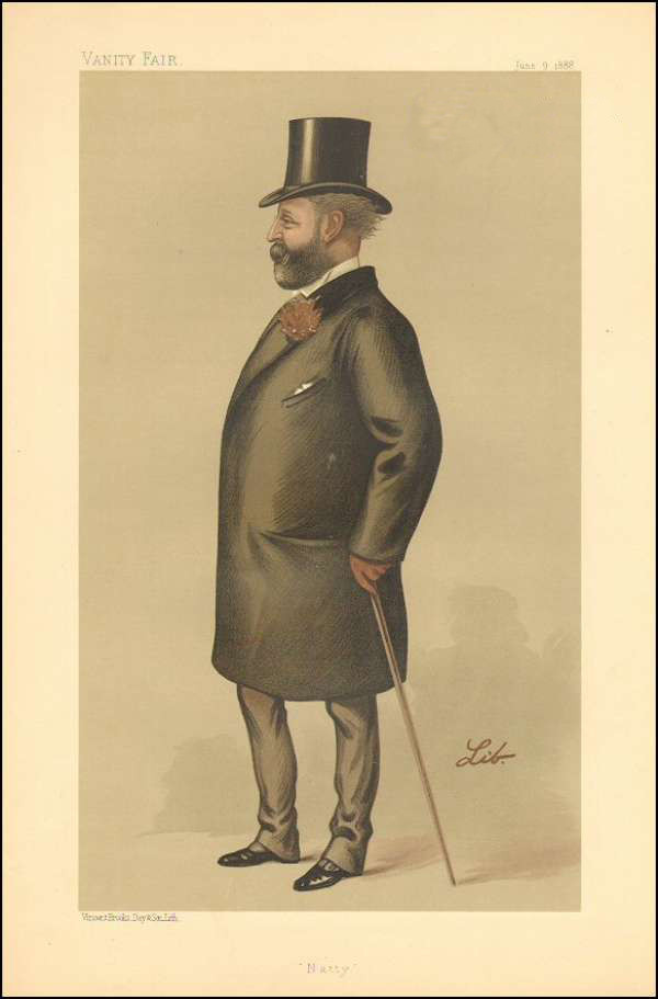 Statesmen No.544: Caricature of The Lord Rothschild. Caption reads: "Natty"